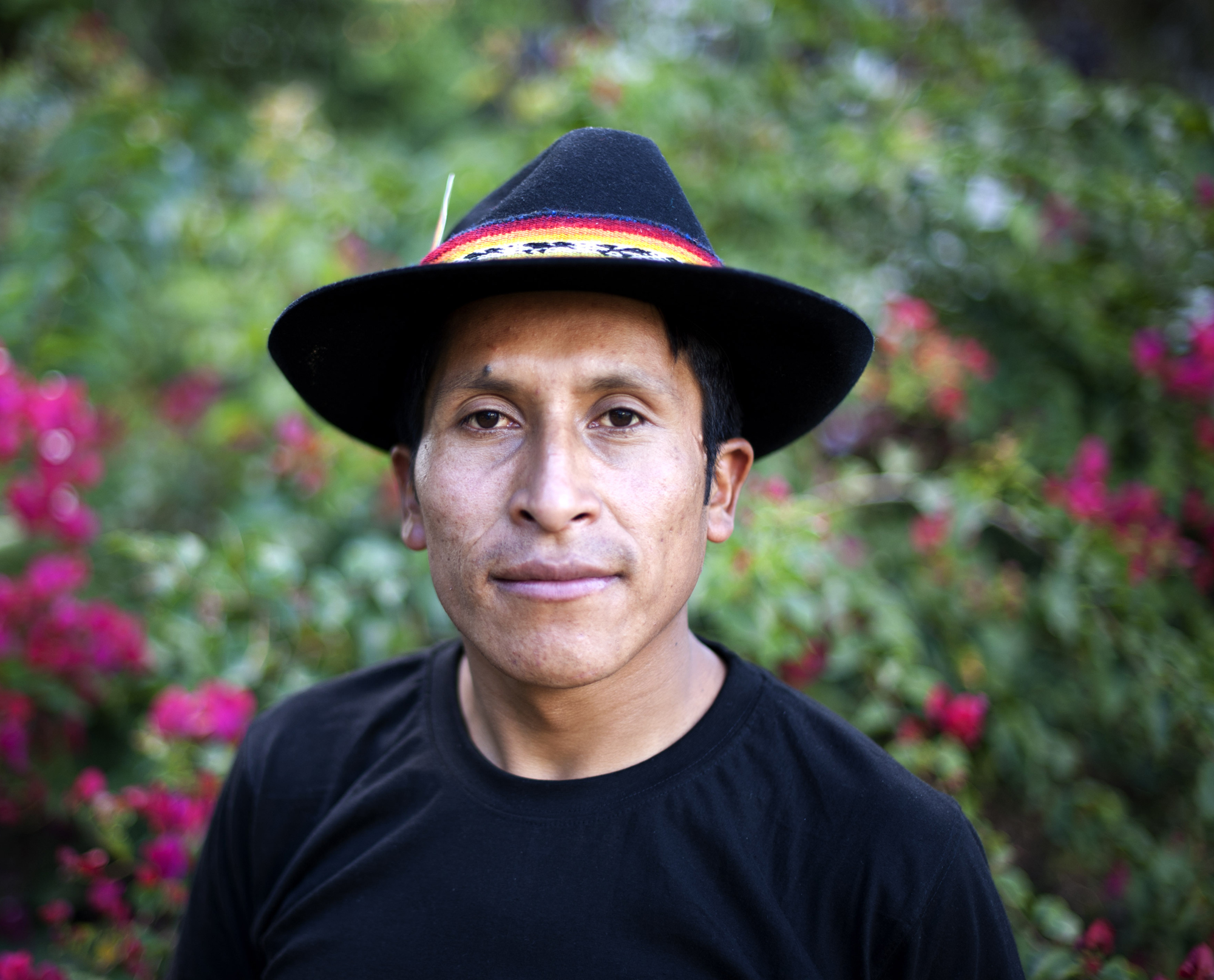 A photo of Aymara Wikipedian Ruben Hilare-Quispe at Wikimania 2011 in Haifa, Israel